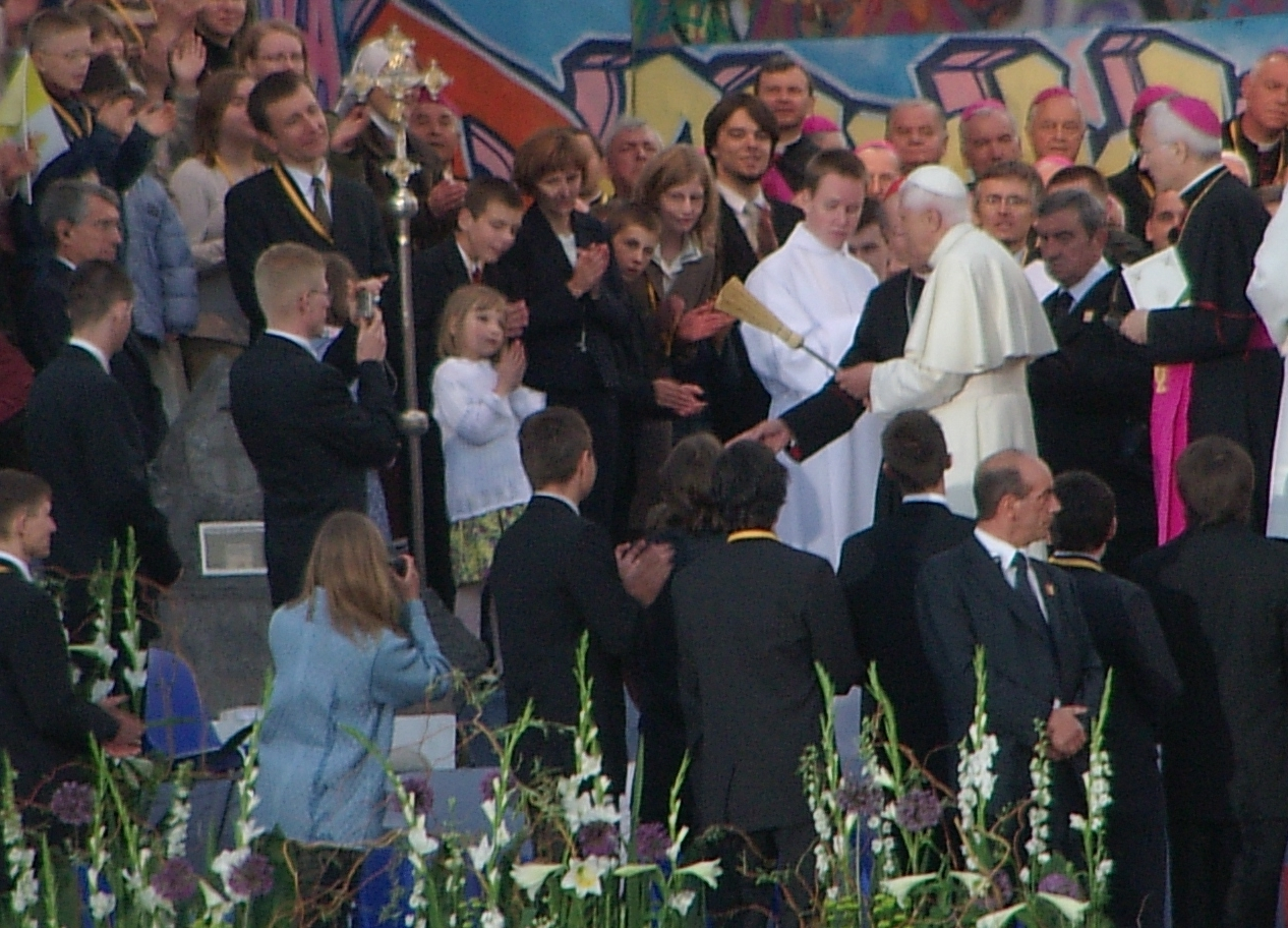 Benedictus XVI blesses the Centre of John Paul II "Don't fear!" foundation stone.